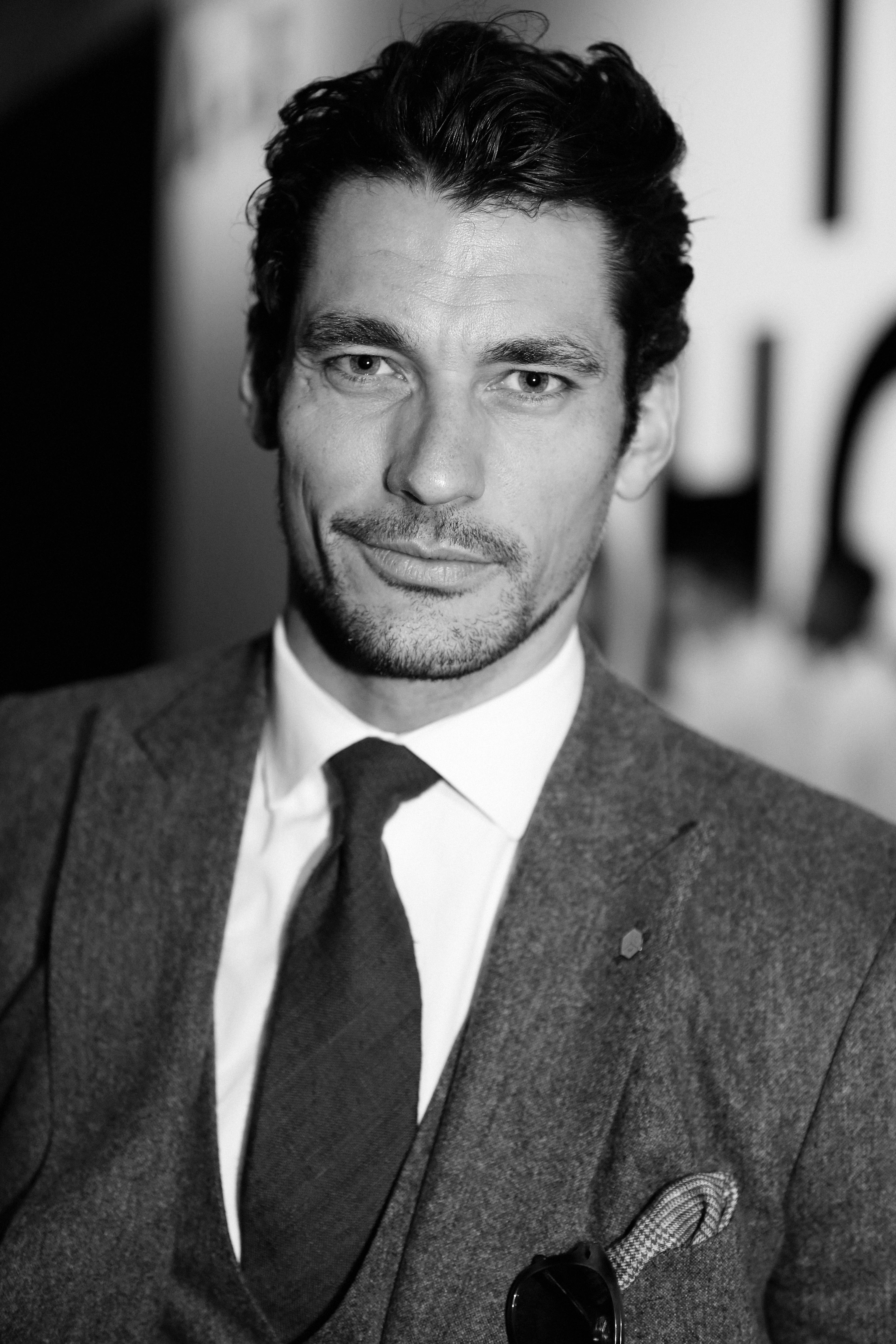 David James Gandy (born 19 February 1980 in Billericay, Essex, England) is a British model.